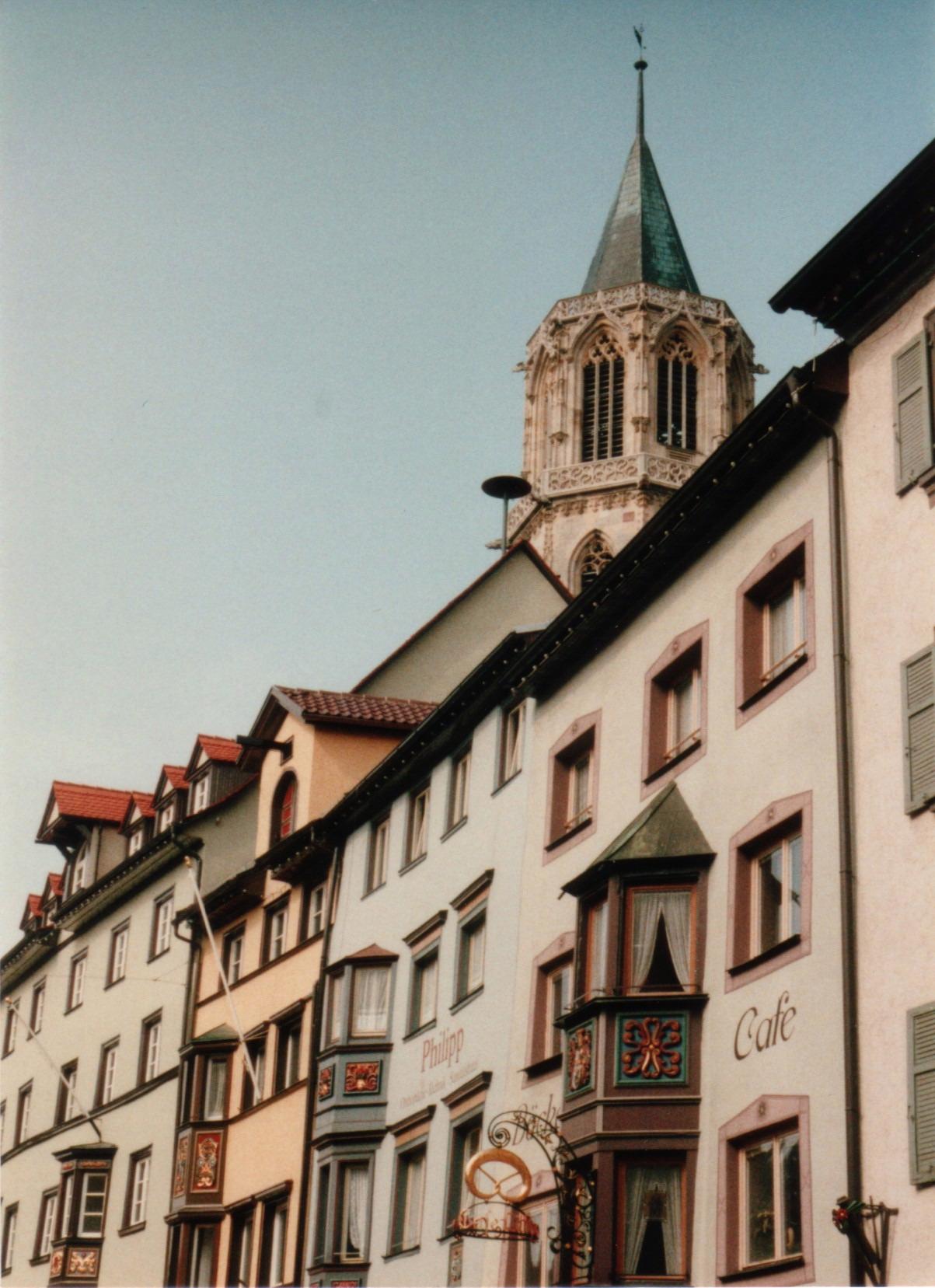 The main street of Rottweil in Germany with the 15th-c. tower of Kapellenkirche Unserer Lieben Frau.